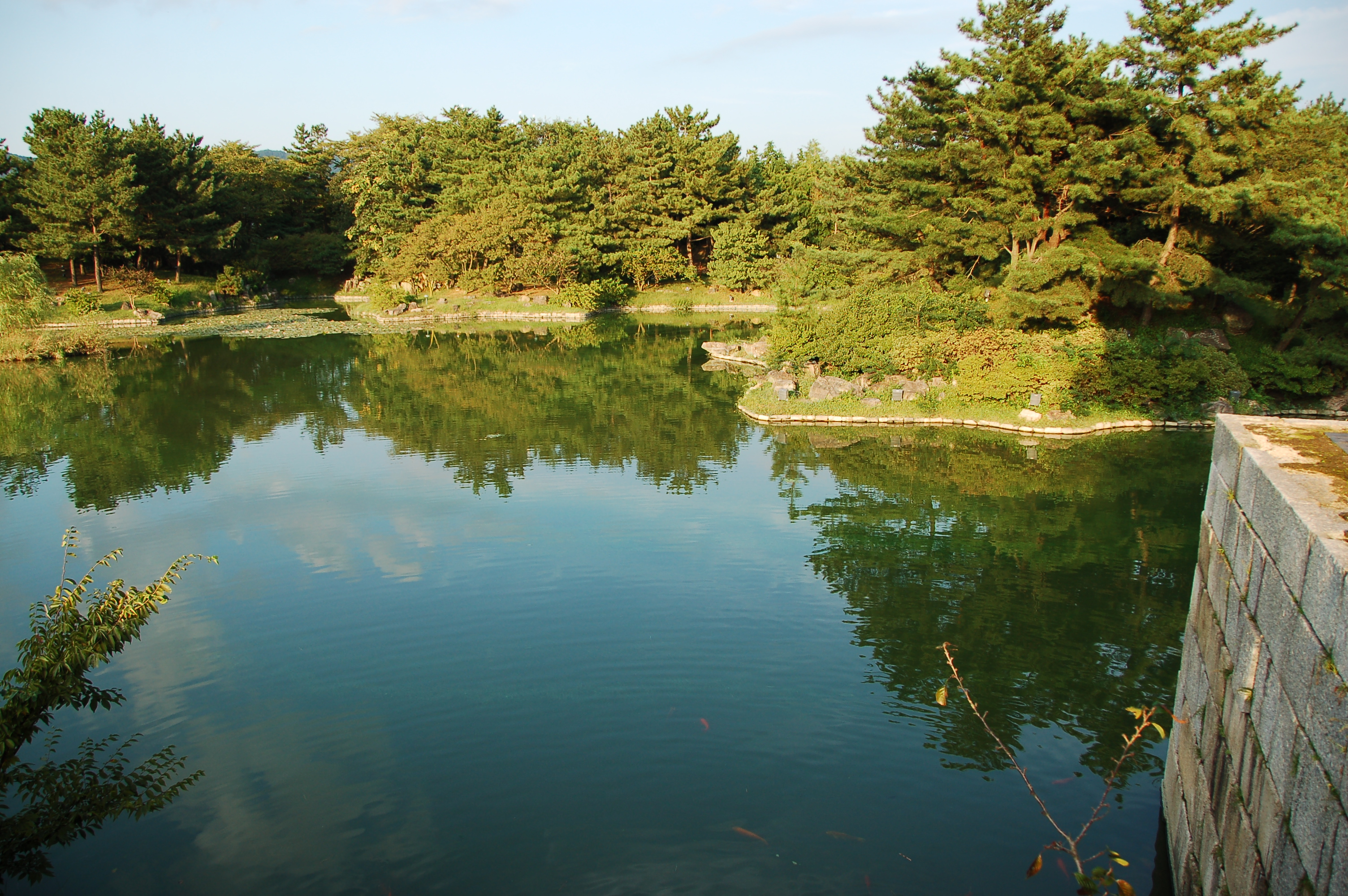 Anapji, an artificial pond located in Gyeongju National Park, South Korea. Gyeongju was the ancient capital of the Silla kingdom and the pond was constructed by order of King Munmu in 674 CE. Anapji is situated at the northeast edge of the Banwolseong palace site, in central Gyeongju. It contains three small islands.